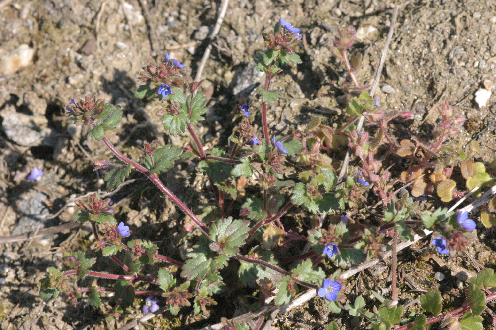 Veronica praecox